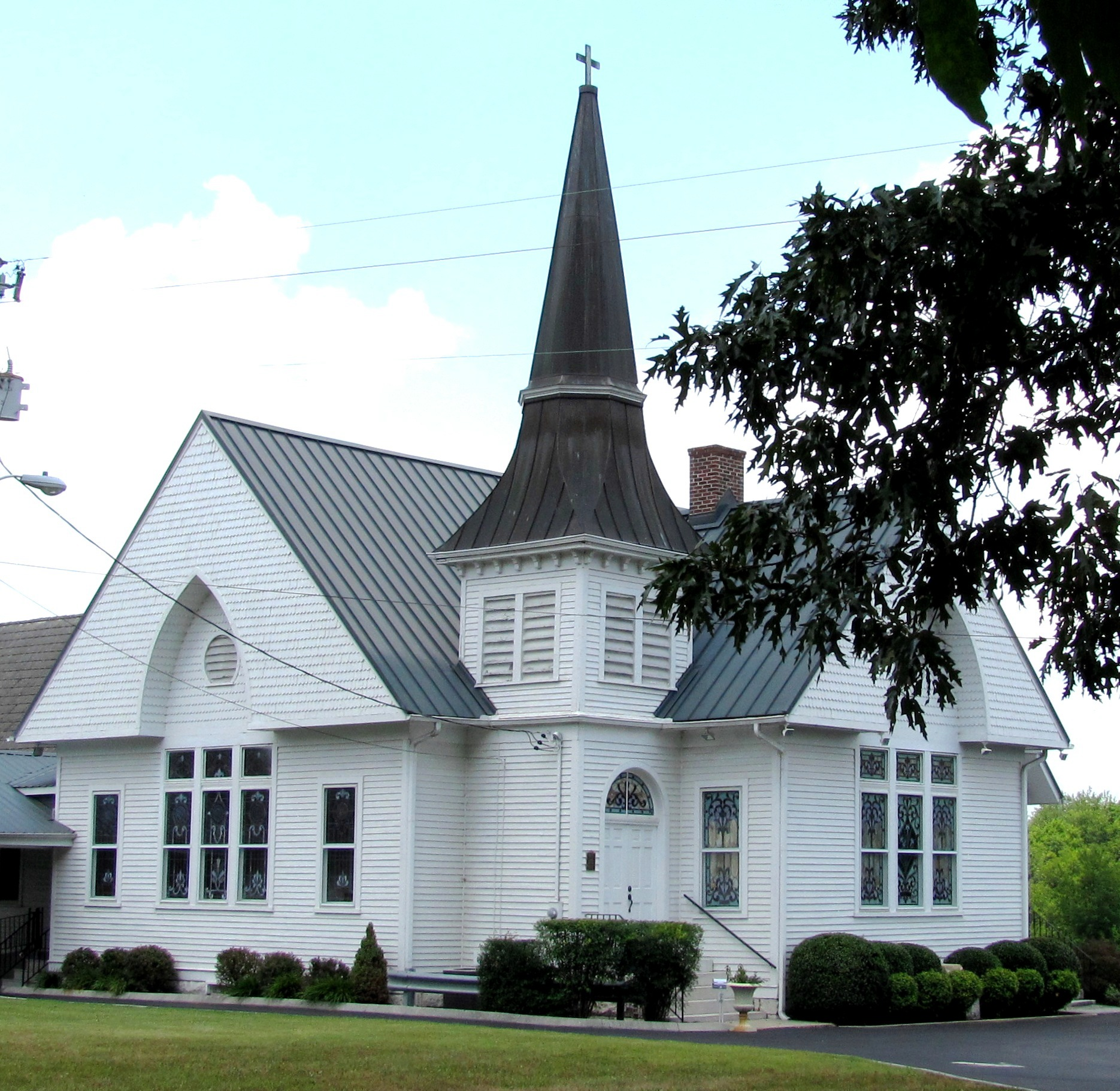 Asbury United Methodist Church (2820 Asbury Rd.) in eastern Knoxville, Tennessee, USA. Built in 1855 and expanded in 1893, this church is now listed on the National Register of Historic Places as the Asbury Methodist Episcopal Church, South.